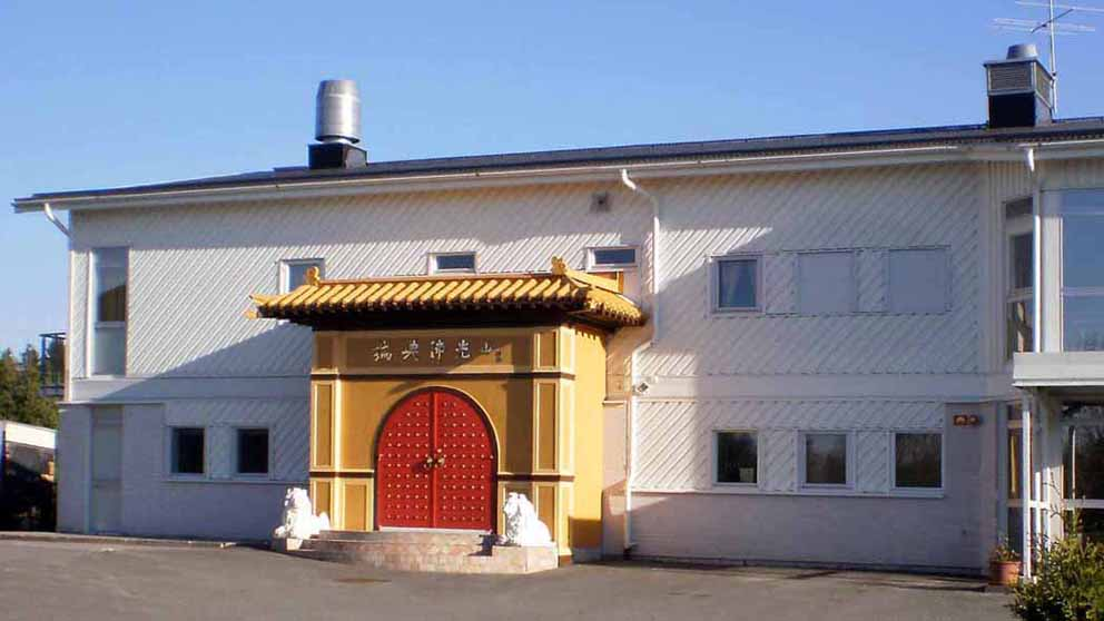 Buddhist temple, Rosersberg, Stockholm, Sweden 2011